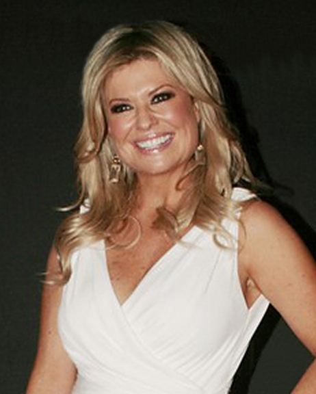 Australian actress Emily Symons at the 2012 Logie Awards at the Crown Casino, Melbourne Image by Brett Robson - Global Photographics